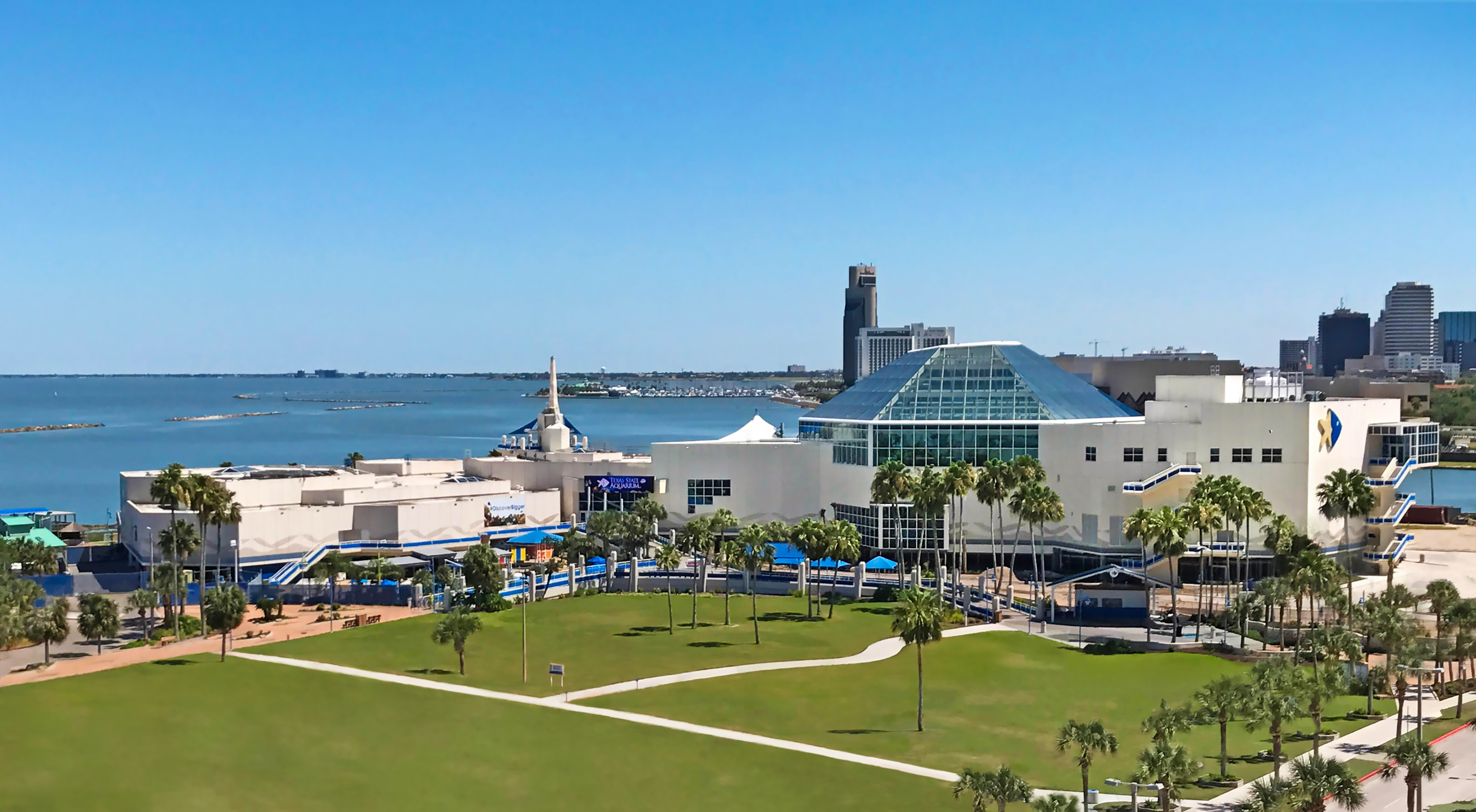 Texas State Aquarium Exterior